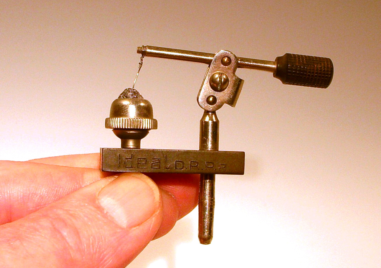 Cat's whisker detector, an antique radio component, from a Swedish crystal radio receiver. It consists of a fine wire attached to an adjustable arm that touches the surface of a crystal of galena (lead sulfide). It was used in crystal radios from about 1906 to World War 2. It functioned as a crude semiconductor diode, rectifying the AC radio signal to extract the audio (sound) signal from the radio frequency carrier wave.